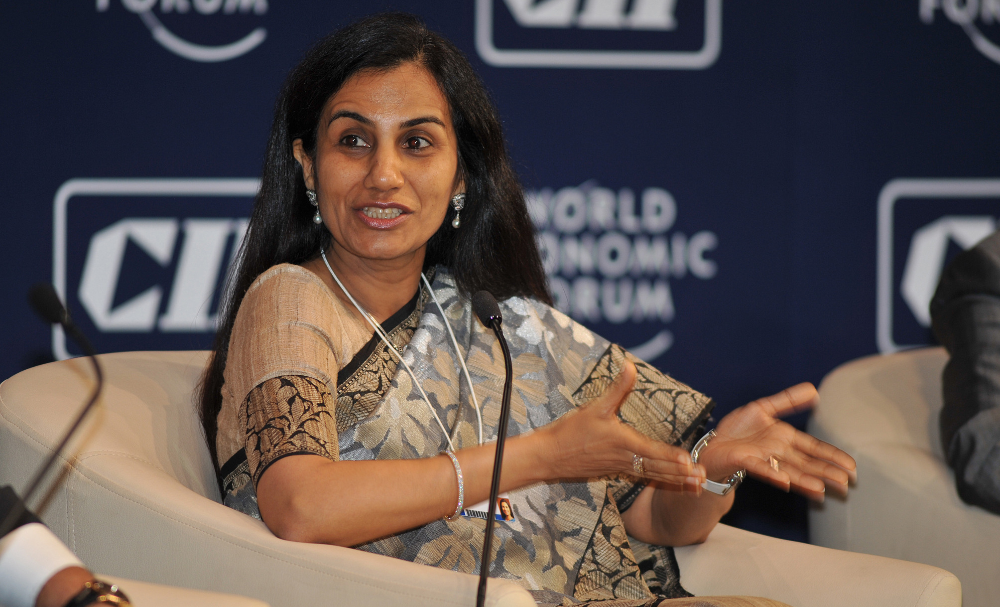 MUMBAI/INDIA, 13NOV11 - Chanda Kochhar, Managing Director and Chief Executive Officer, ICICI Bank, India at the India in the New Global Reality (Opening Plenary Session) during the India Economic Summit 2011 in Mumbai, India, 12-14 November, 2011. Copyright World Economic Forum ( / Eric Miller